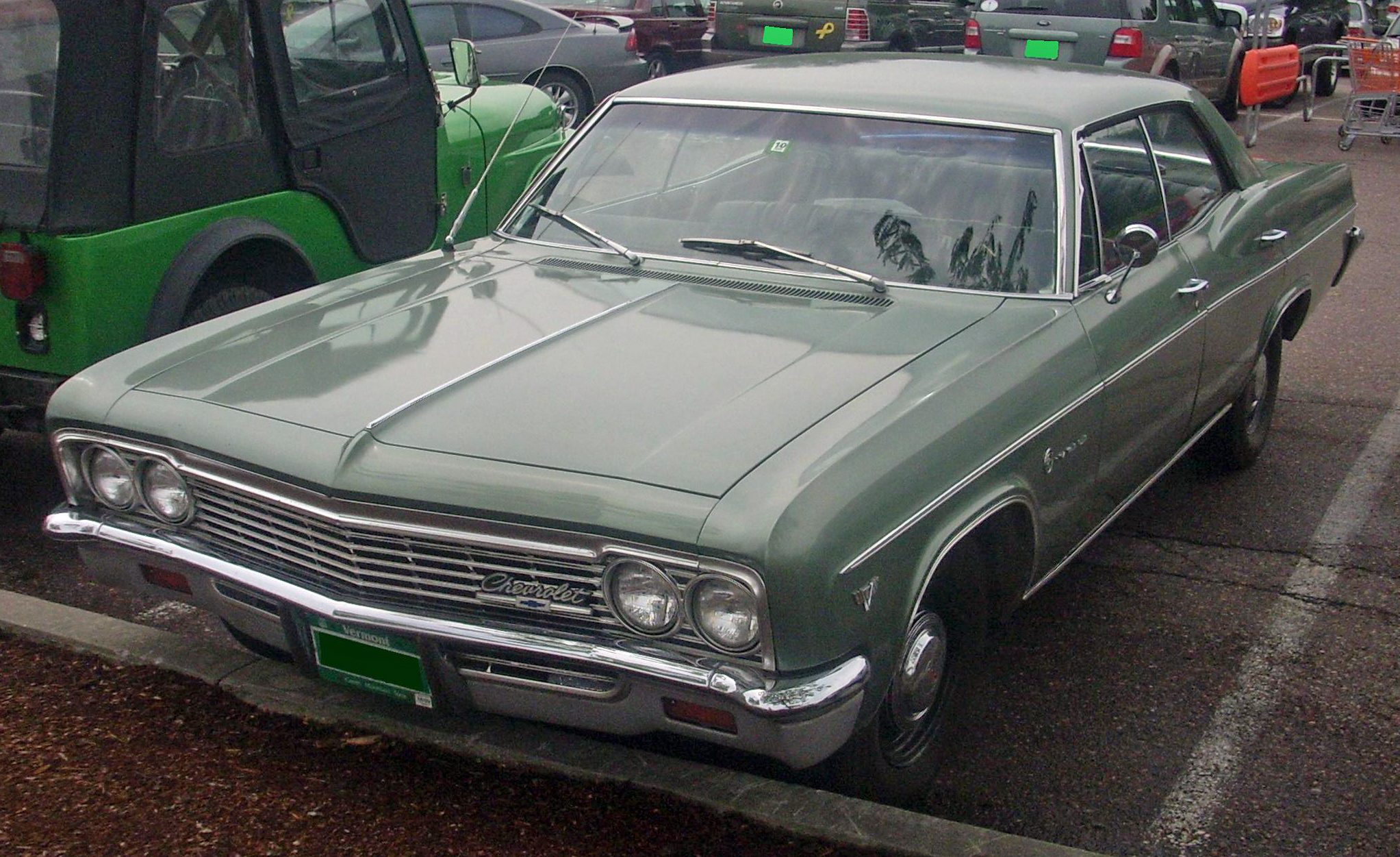 Chevrolet Impala photographed in Williston, Vermont, USA.